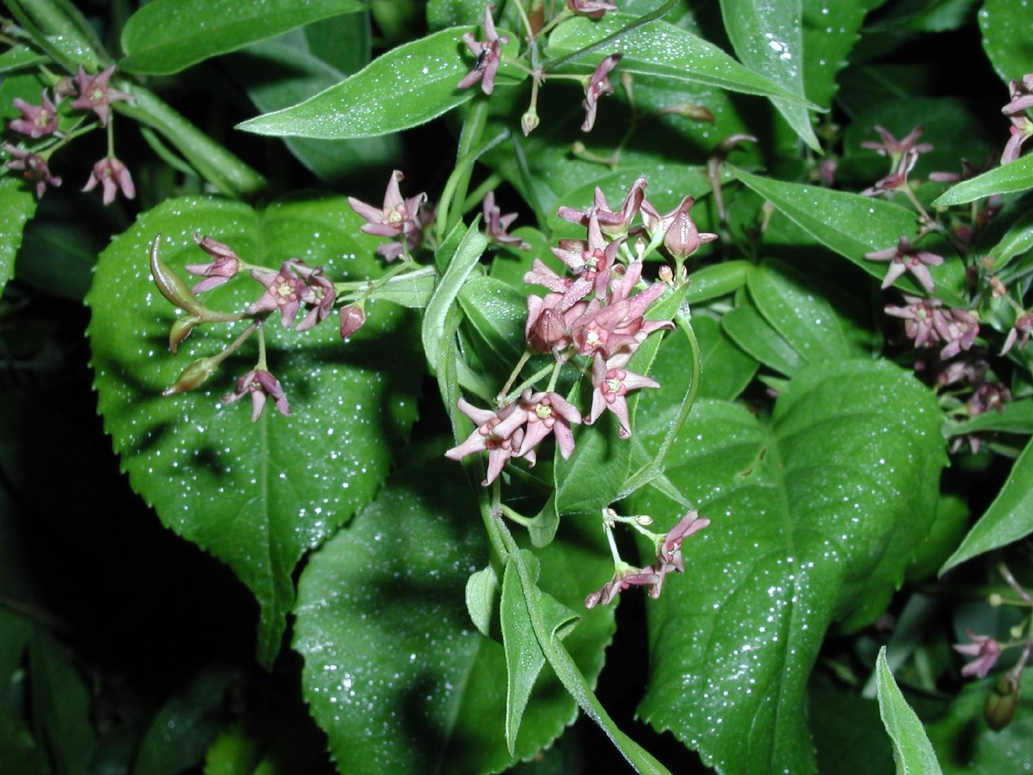 Dog-strangling vine, European swallowwort (Vincetoxicum rossicum) (Kleopov) Barbarich